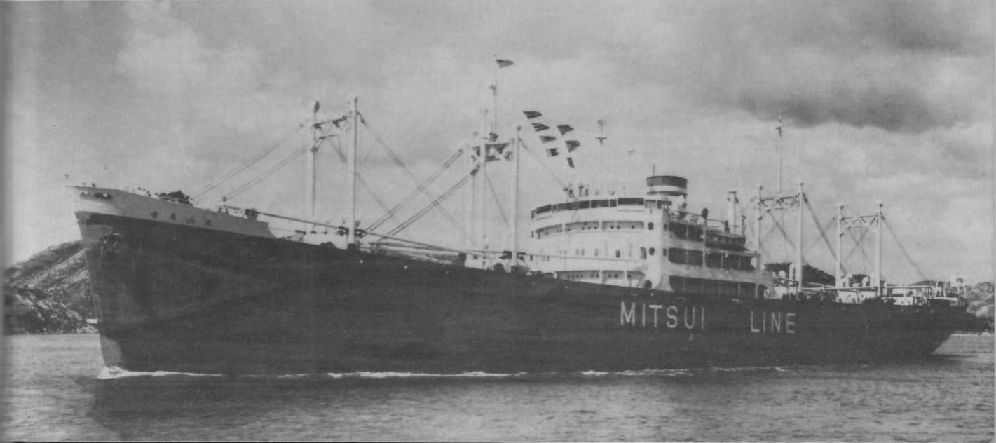 Mitsui Line "Arimasan Maru", Survived the WWII, retirement in 1970.